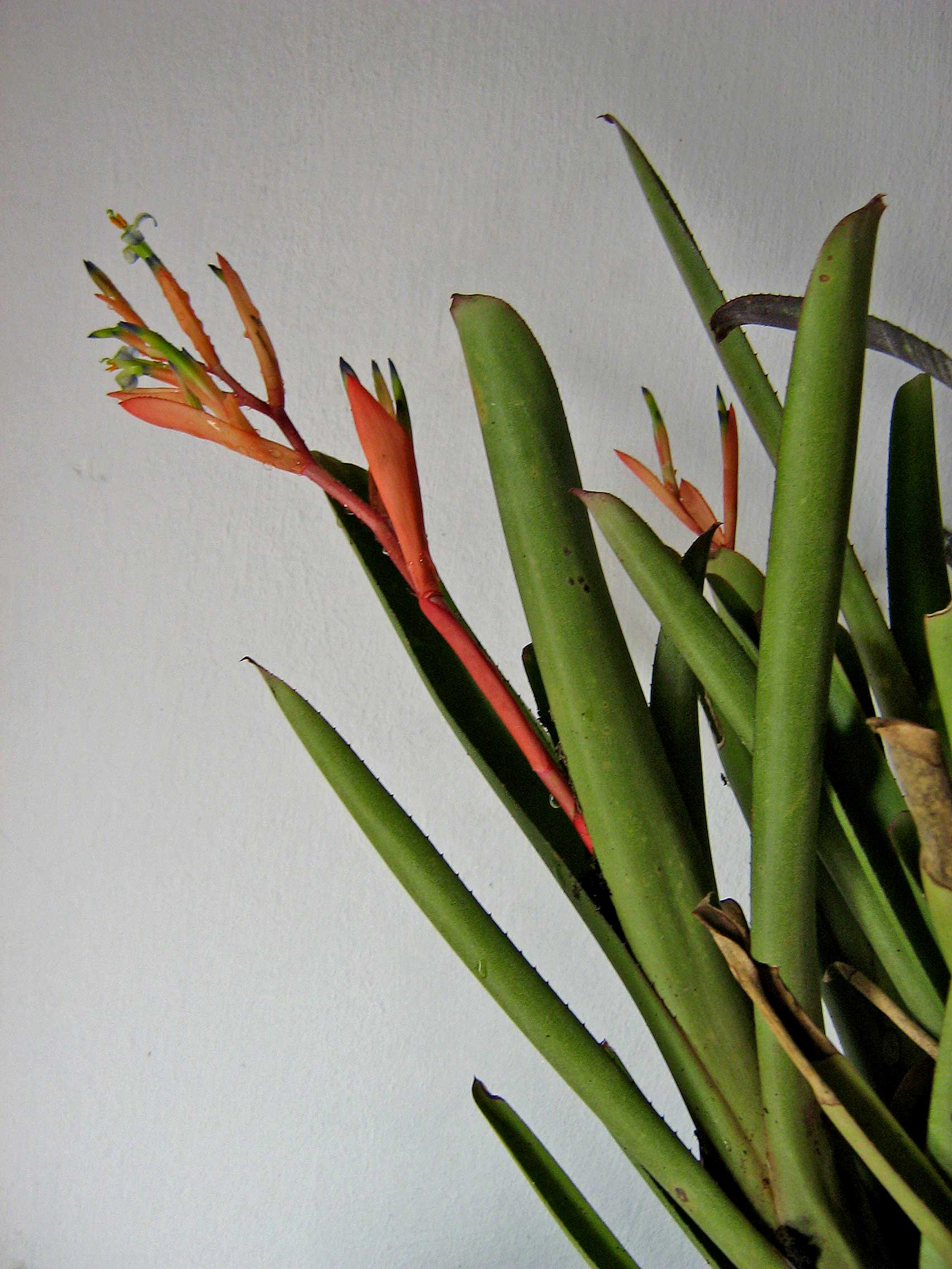 Needs confirmation. Wild plant, collected in the area of São José del Rey, Minas Gerais, Brazil.